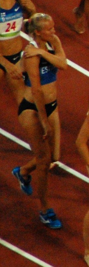 heptathlon Olympics 2008